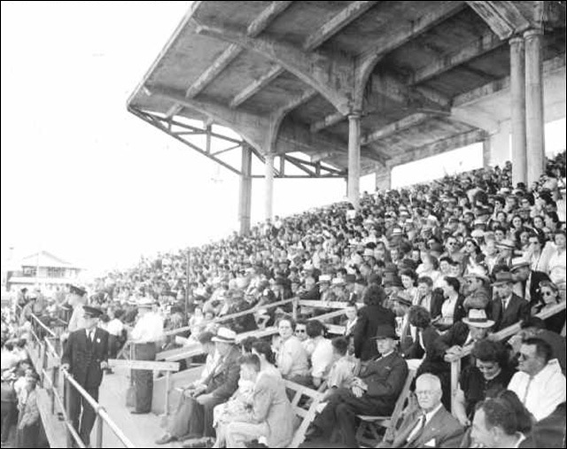 Large Crowds At Three Rivers Exhibition Week Races « A full grandstand was commonplace throughout Exhibition week at the Trois Rivieres oval as evidenced by the photo shown above. Consistently good racing kept the people coming back each day. On day one, the stage was set as a field of the best pacers in the Province faced off in the $1,500 Free For All event. Guy H, the most consistent side wheeler in Quebec at that time, took the first two heats pacing the meeting's fastest mile in 2:05 4/5 in the middle contest. Guy H was handled as always by Honorat Larochelle for owner Elzear Cournoyer of Sorel, Que. In the third heat Texas Hanover driven by Paul Emile Larente eked out a win with Guy H taking down second place money. On the trotting side Provident won the $1,000 Free For All in three straight heats for owner Emile Blondeau of Quebec City. The week-long racing program was capped off by a five-mile event for both trotters and pacers on closing day. The winner in the field of six was the mare Laura Volo owned by A. Vohl of Saint Marc des Carriers, Quebec with a clocking of 12:34 4/5. The purse for this event was $800. »